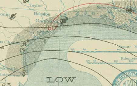 Surface weather analysis of Monterrey hurricane on 27 August 1909.